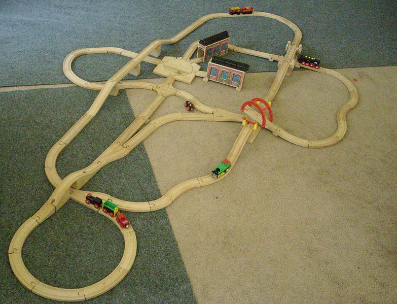 A BRIO toy train track that I helped put together